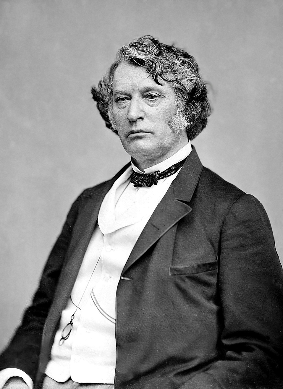 U.S. Senator Charles Sumner; edited.